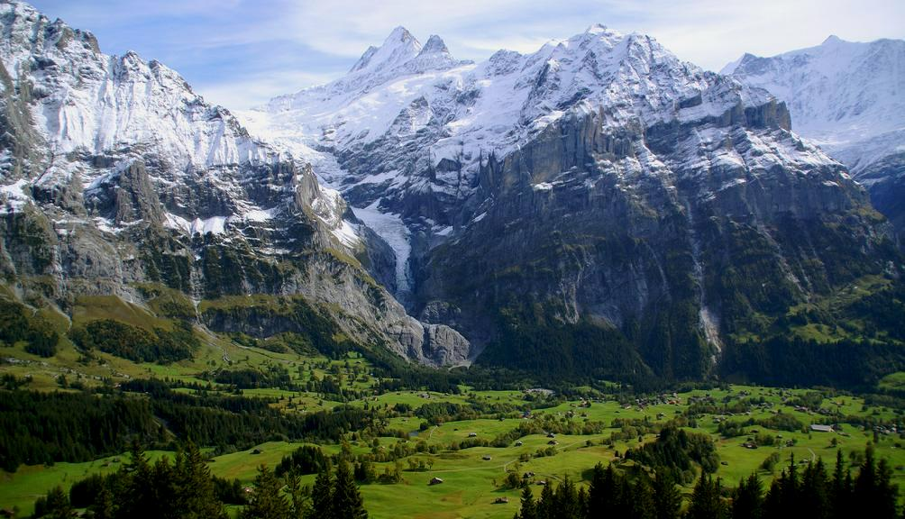 View of Bernese Alps from Grindelwald: Parts of Wetterhorn to the left, the pyramid of Schreckhorn in the center, pyramid of Klein Schreckhorn in front of it, parts of Lauteraarhorn behind, Mättenberg in the front, on the right hand behind it the dark peak of Kleines Fierscherhorn and the white peak of Grosses Fierscherhorn – the glacier Oberer Grindelwaldgletscher between Wetterhorn and Mättenberg